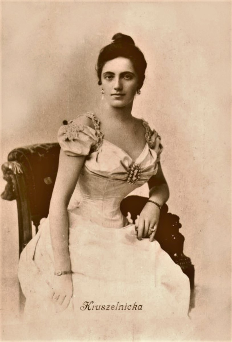 Solomiya Krushelnytska, (1872 - 1952) Obviously pre-1923